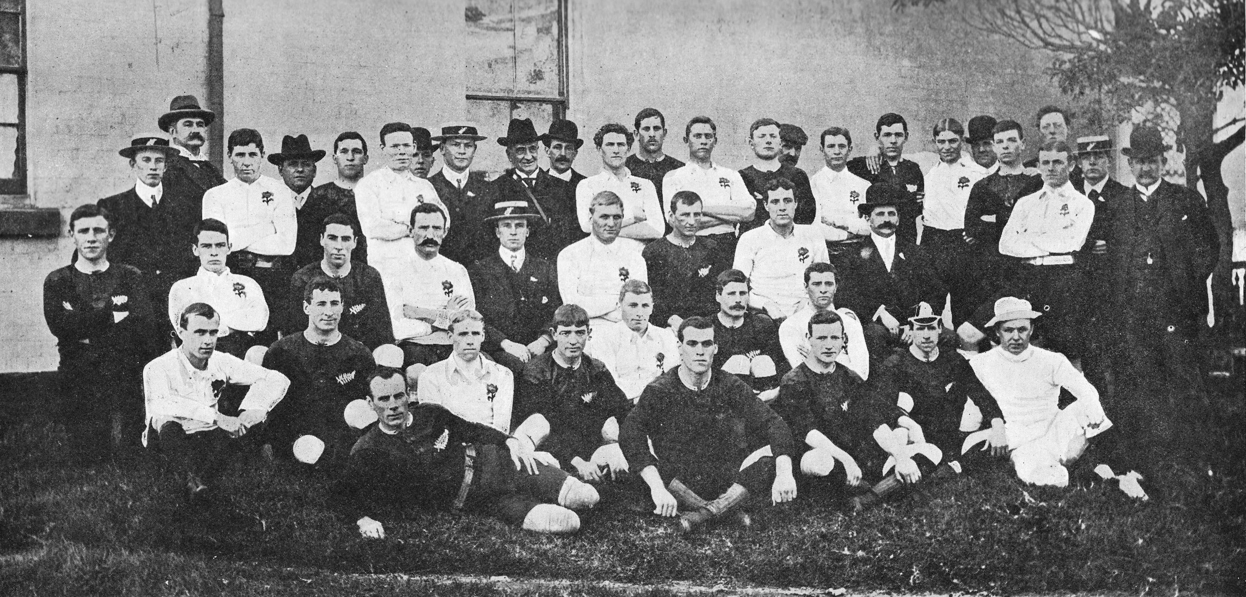 New Zealand and NS Wales teams posing together